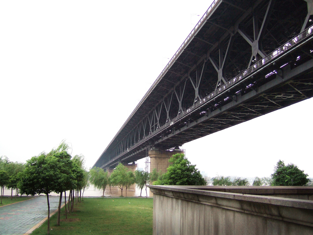 The gigantic bridge across the Yangze in Wuhan, built by Soviet advisers in 1957 Bân-lâm-gú: Bú-hàn-tshī ê Tiông-kang Tuā-kiô. 1957-nî iû Soo-liân kòo-būn lâi khí-tsō. 武漢市的長江大橋，1957年由蘇聯顧問來起造。